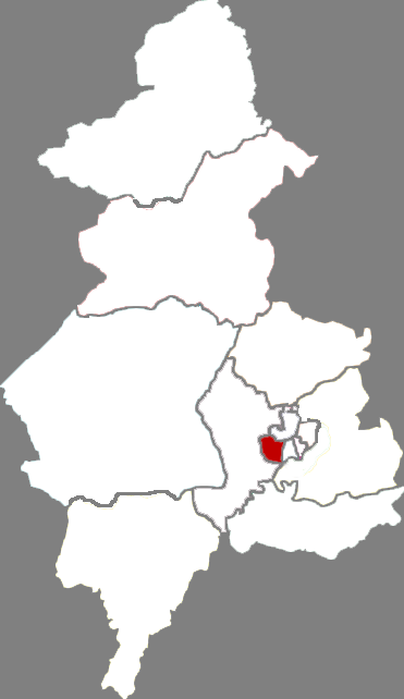 Location of Tiexi district in Shenyang City, China